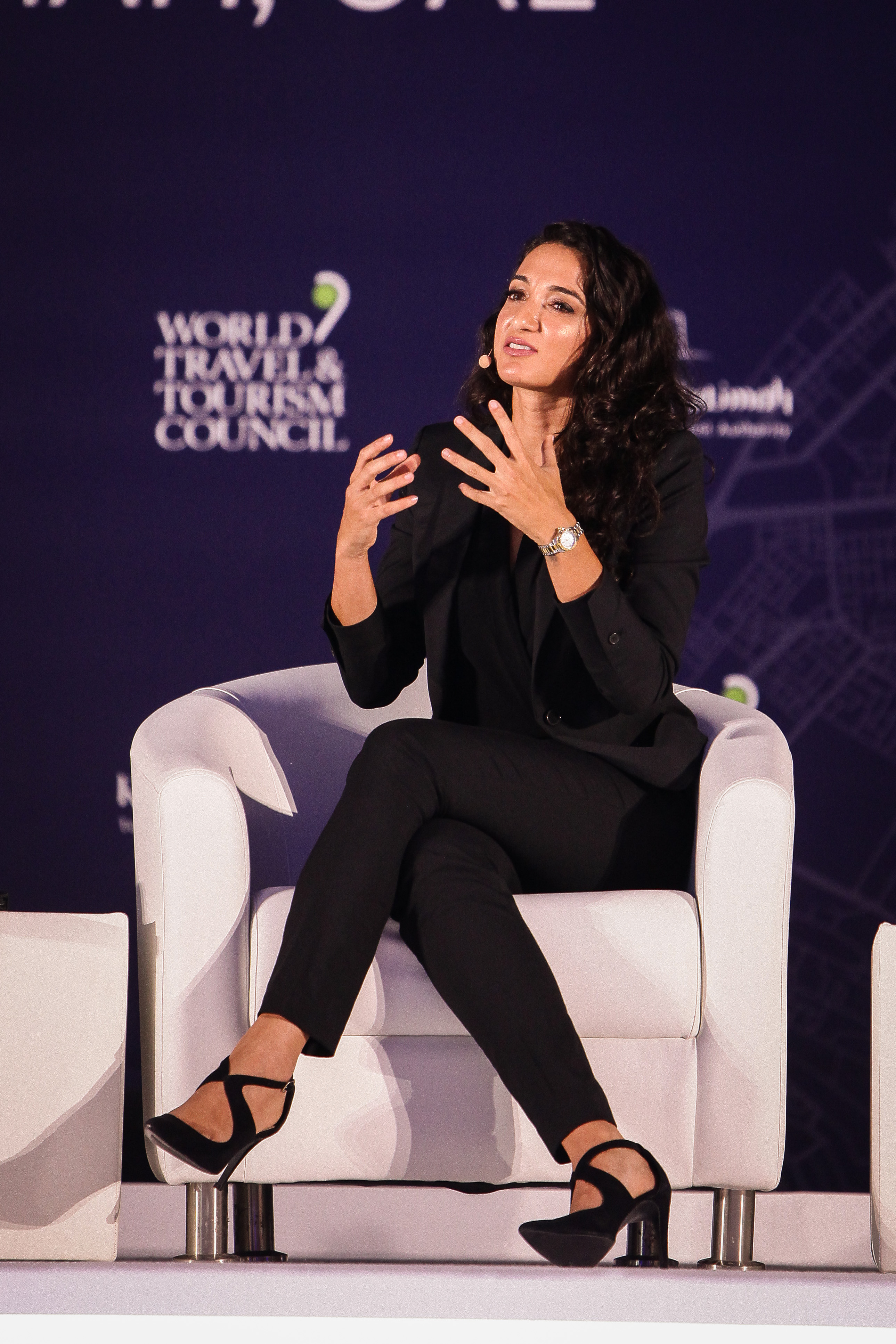 Raha Moharrak, Mountaineer & First Saudi Woman to Climb Seven Summits